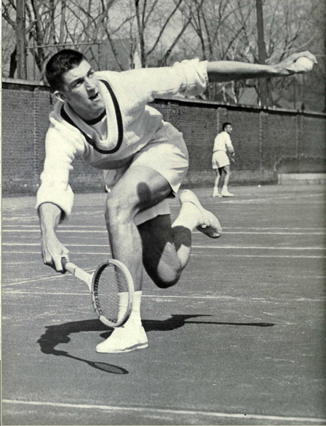 Photograph of Barry MacKay This work is in the public domain because it was published in the United States between 1924 and 1963 and although there may or may not have been a copyright notice, the copyright was not renewed. Unless its author has been dead for the required period, it is copyrighted in the countries or areas that do not apply the rule of the shorter term for US works, such as Canada (50 pma), Mainland China (50 pma, not Hong Kong or Macao), Germany (70 pma), Mexico (100 pma), Switzerland (70 pma), and other countries with individual treaties. See Commons:Hirtle chart for further explanation. This work is in the public domain in the United States because it was published in the United States between 1924 and 1977 without a copyright notice. See Commons:Hirtle chart for further explanation. Note that it may still be copyrighted in jurisdictions that do not apply the rule of the shorter term for US works (depending on the date of the author's death), such as Canada (50 p.m.a.), Mainland China (50 p.m.a., not Hong Kong or Macao), Germany (70 p.m.a.), Mexico (100 p.m.a.), Switzerland (70 p.m.a.), and other countries with individual treaties.